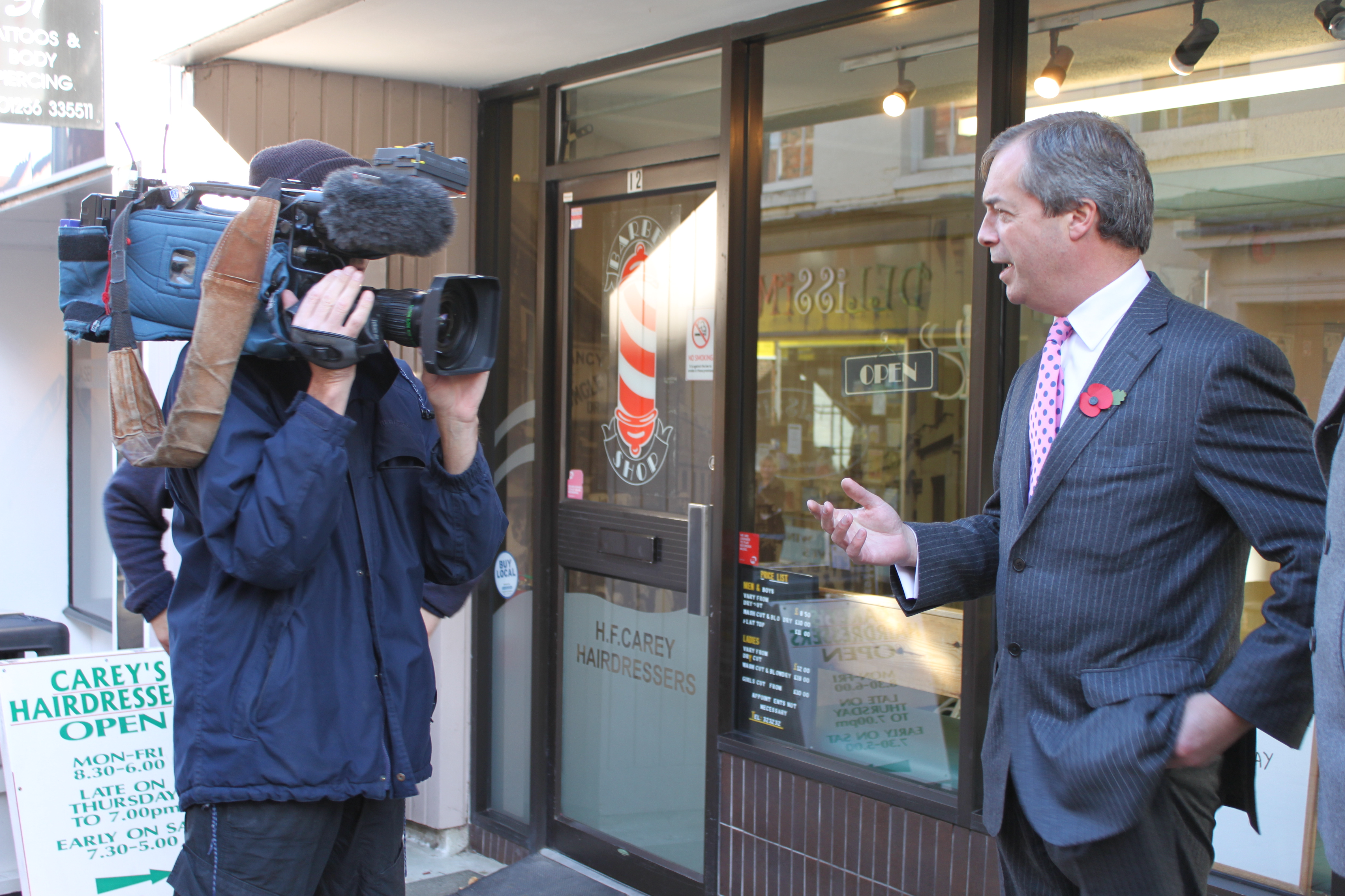 Nigel Farage MEP, leader of the United Kingdom Independence Party, speaking to members of the media.